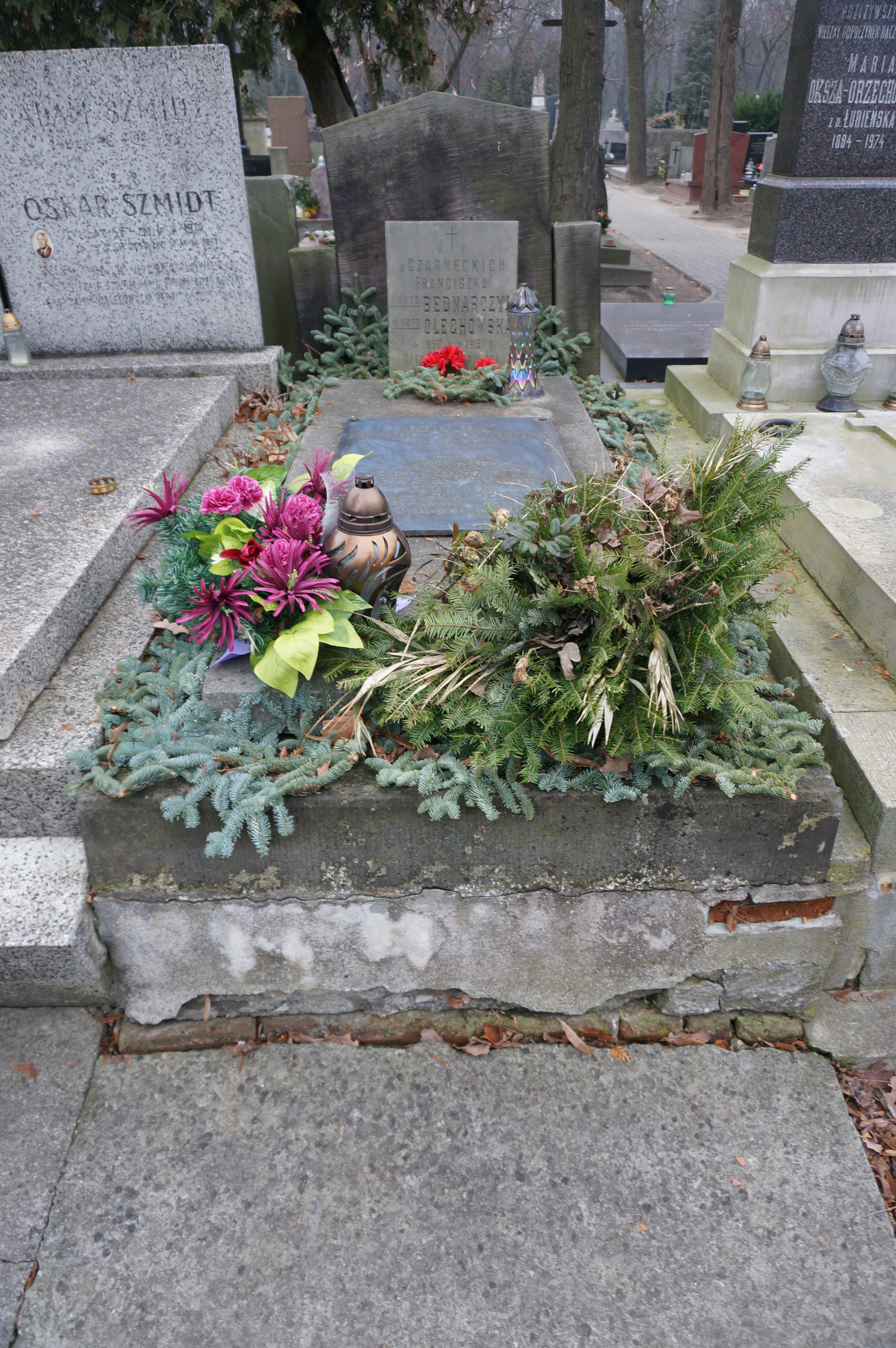 The grave of Antoni Bednarczyk at the Powązki Cemetery (section c, row 2, grave 18)